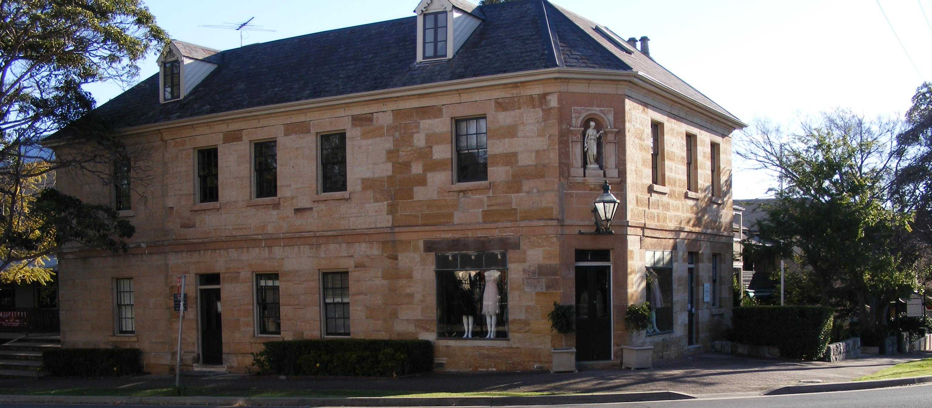 Former Garibaldi Inn, also former office of John Singleton advertising agency, Hunters Hill, Sydney